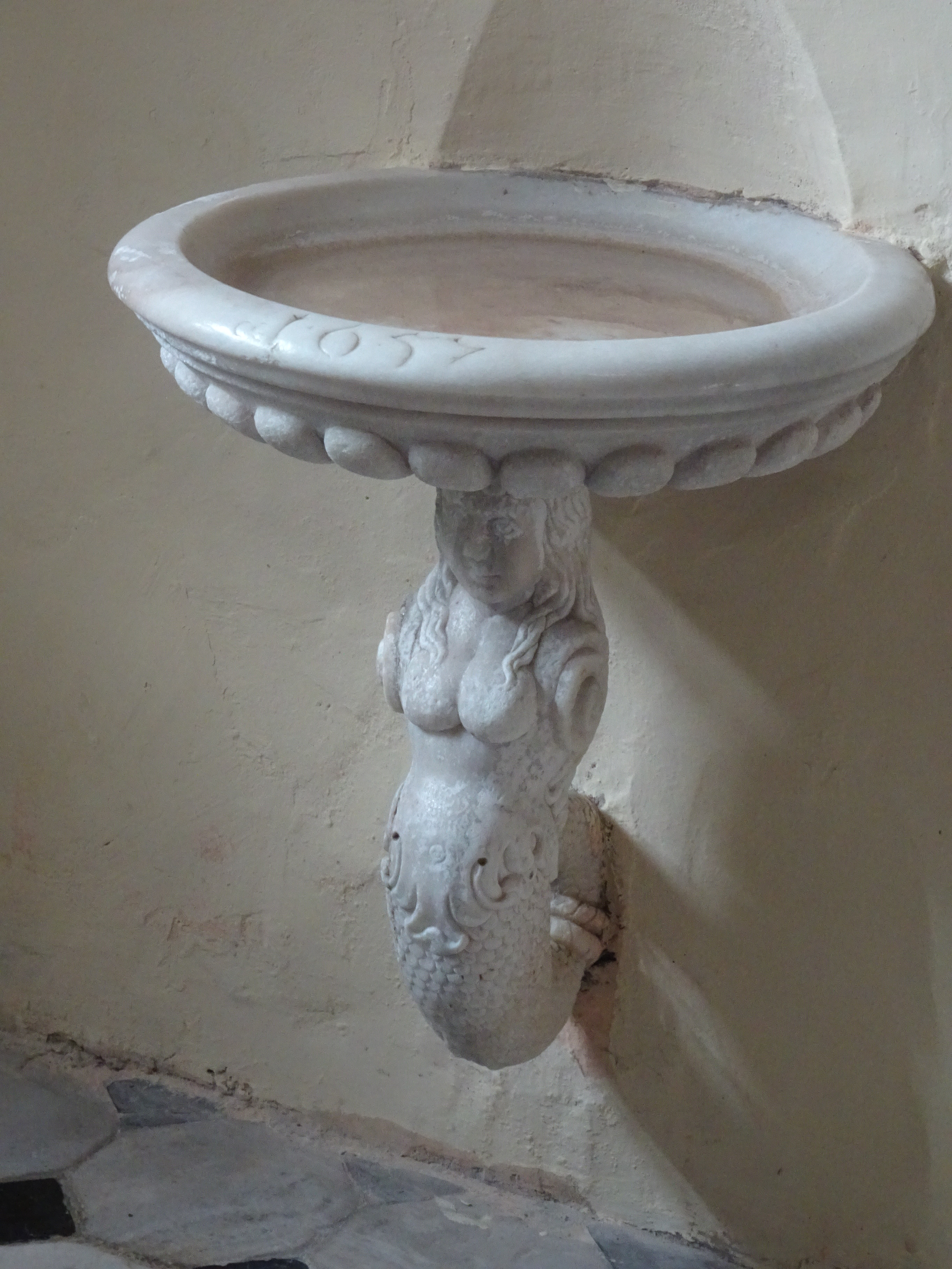 St. George's Parish Church (Slovenske Konjice)